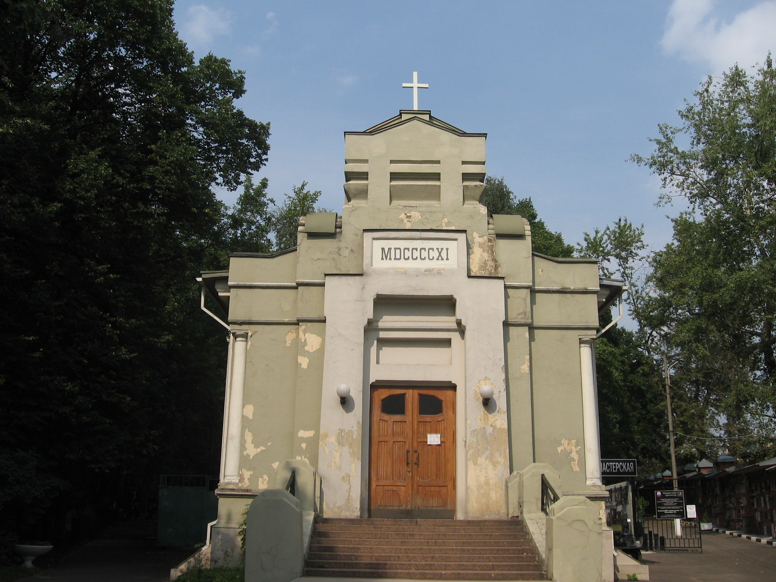 Trinity Lutheran Church (Moscow). Built in 1911.